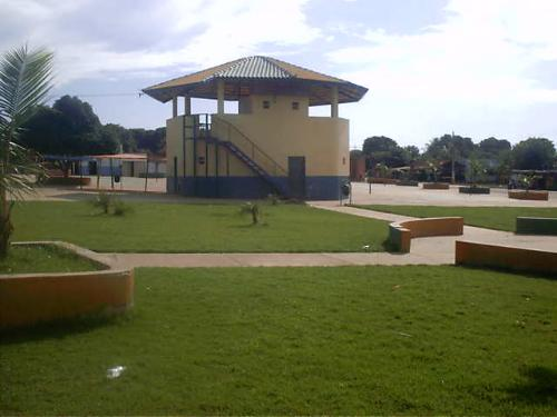 Picture central square of Urucuia - MG